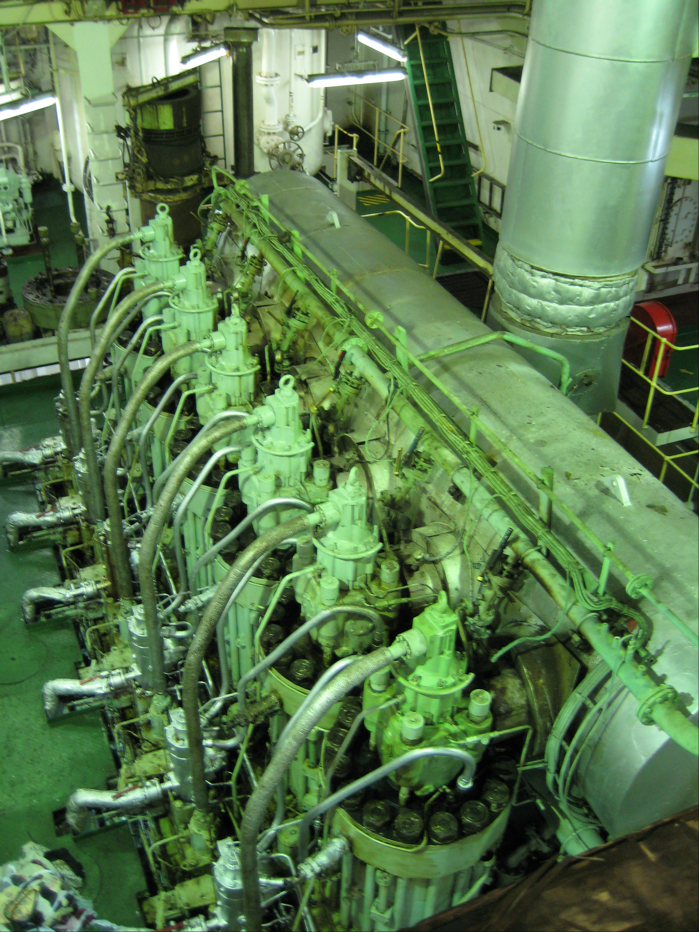 Source: Xtrememachineuk (talk) 14:58, 17 August 2008 (UTC)